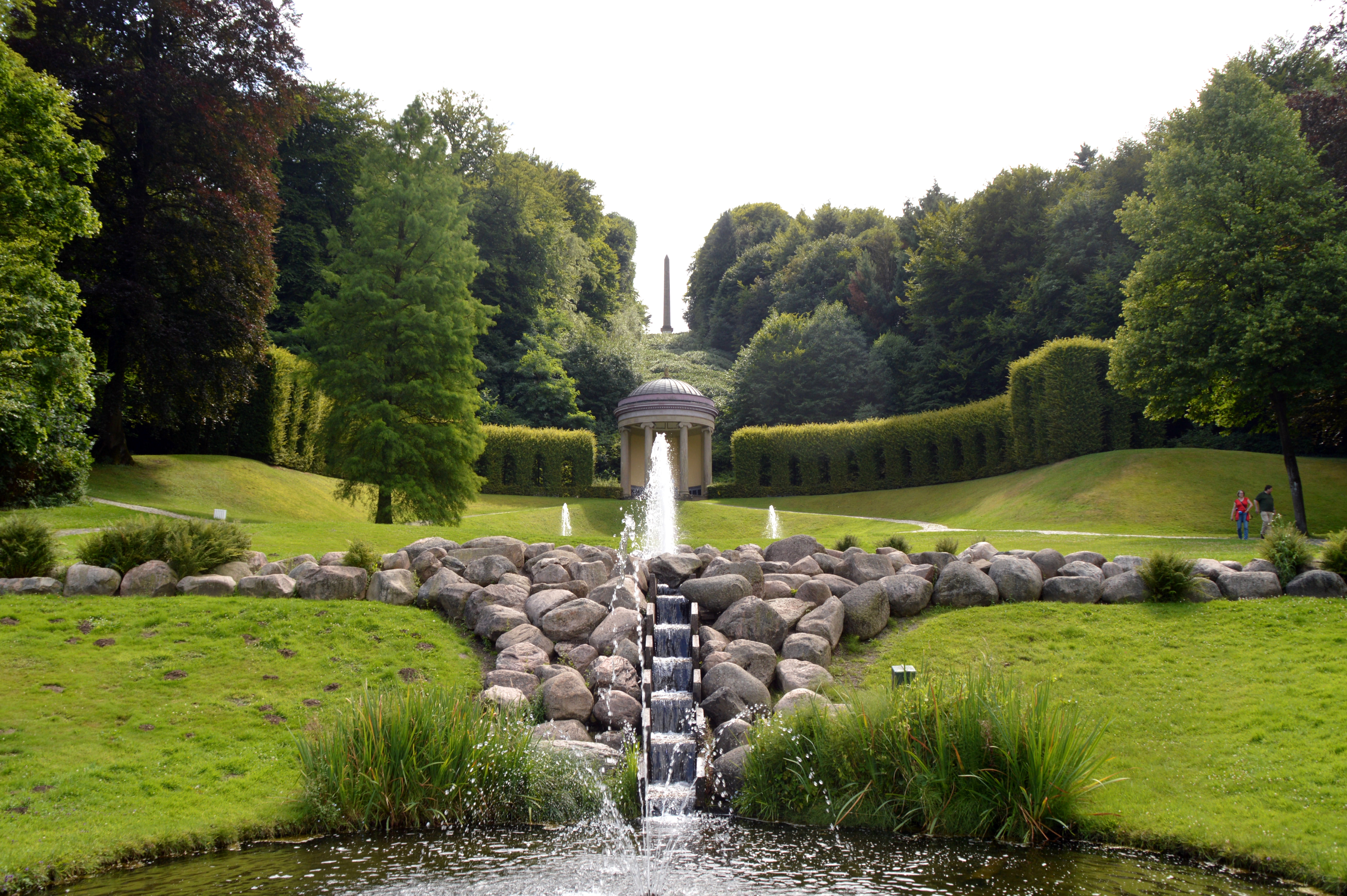 De Kleefse tuinen Die Gärten von Kleve Forest garden Johan Maurits van Nassau-Siegen John Maurice, Prince of Nassau-Siegen Johann Moritz (Nassau-Siegen)